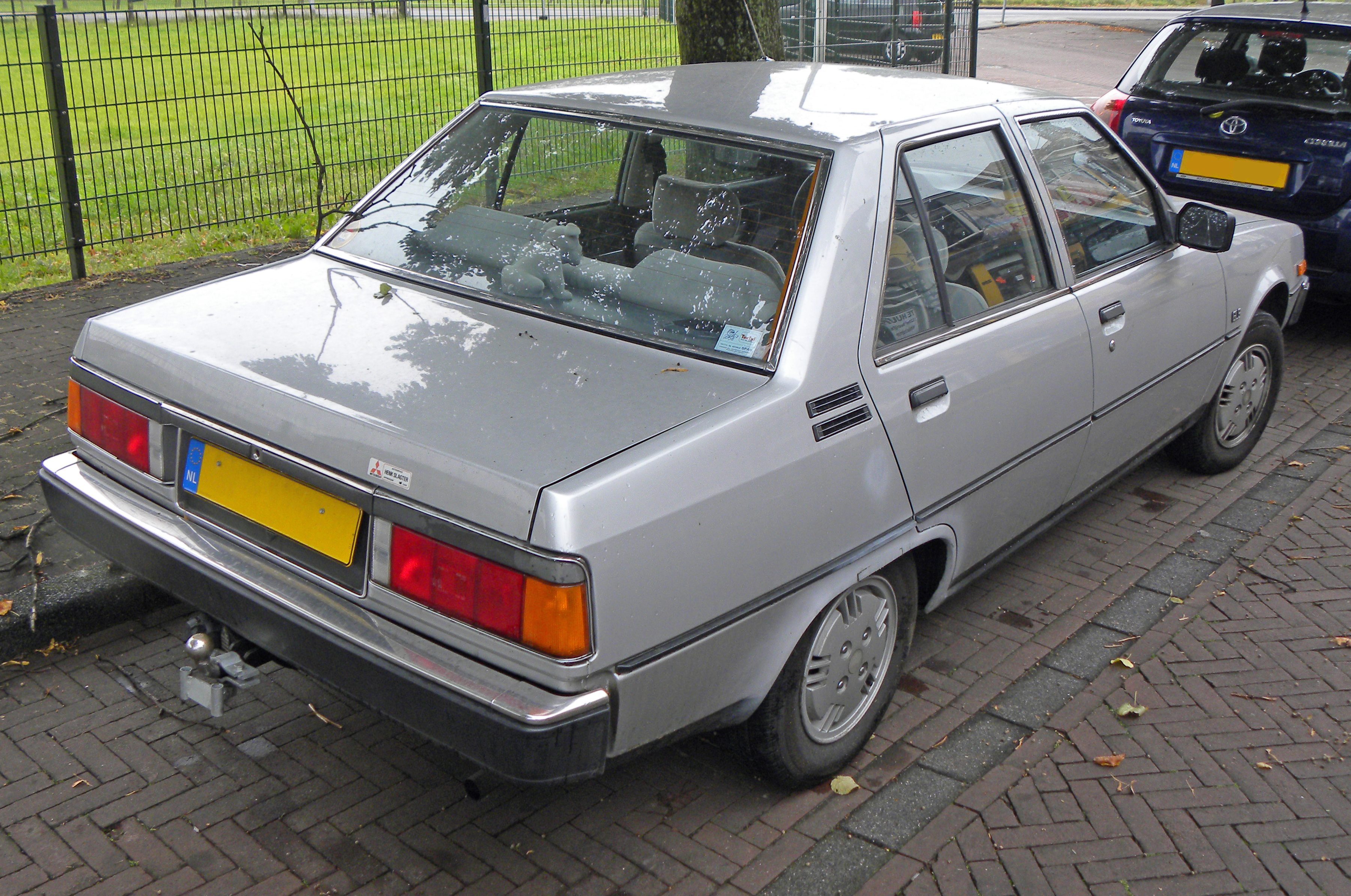 1983 Mitsubishi Tredia 1600 GLS in the Netherlands